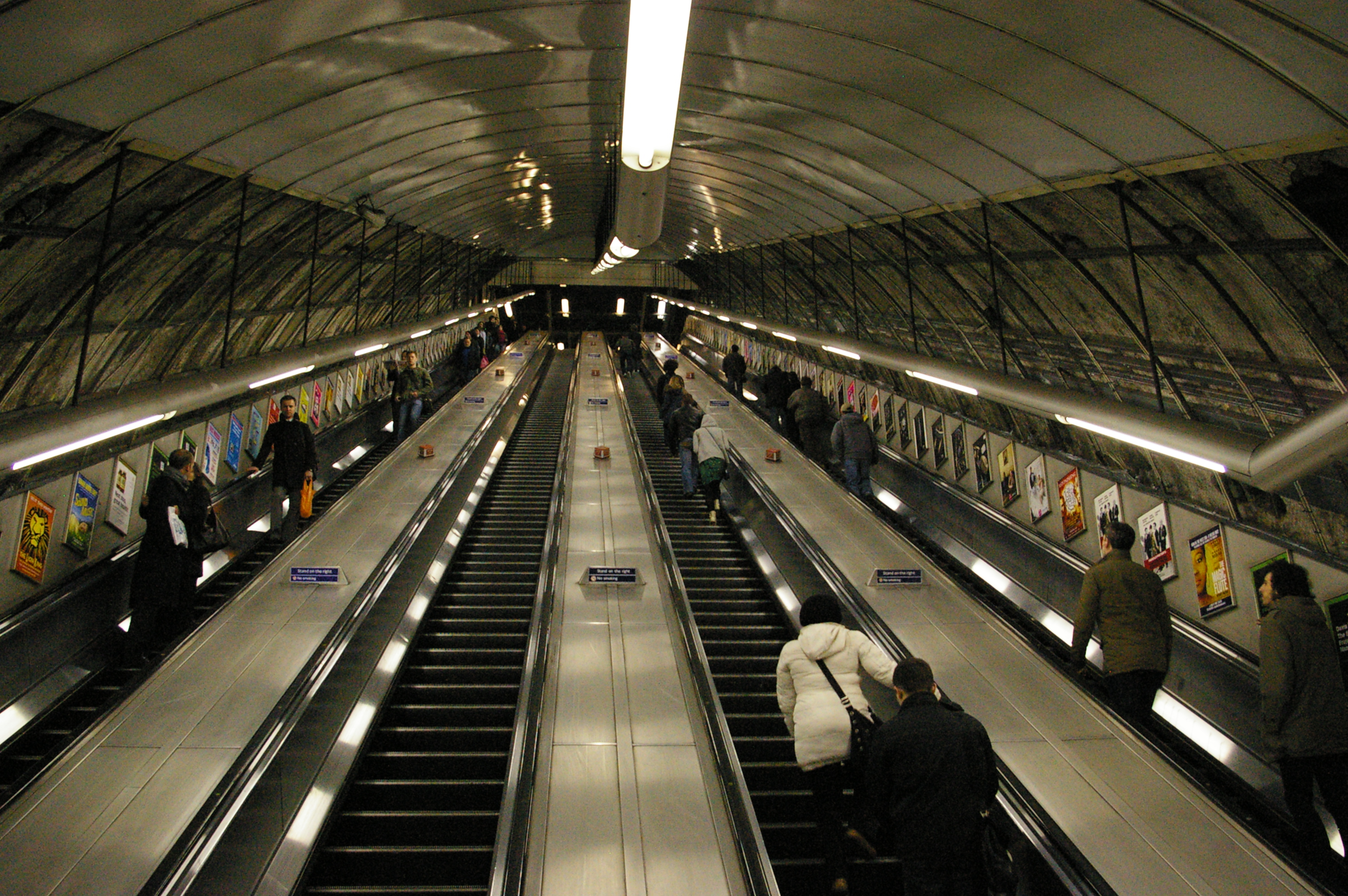 Holborn Tube Station Escalator